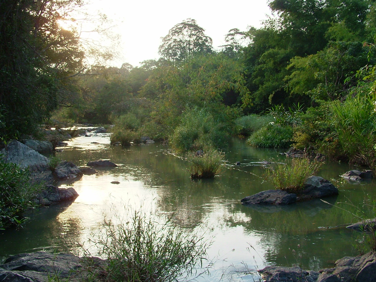 Stream in Easo Nature Reserve